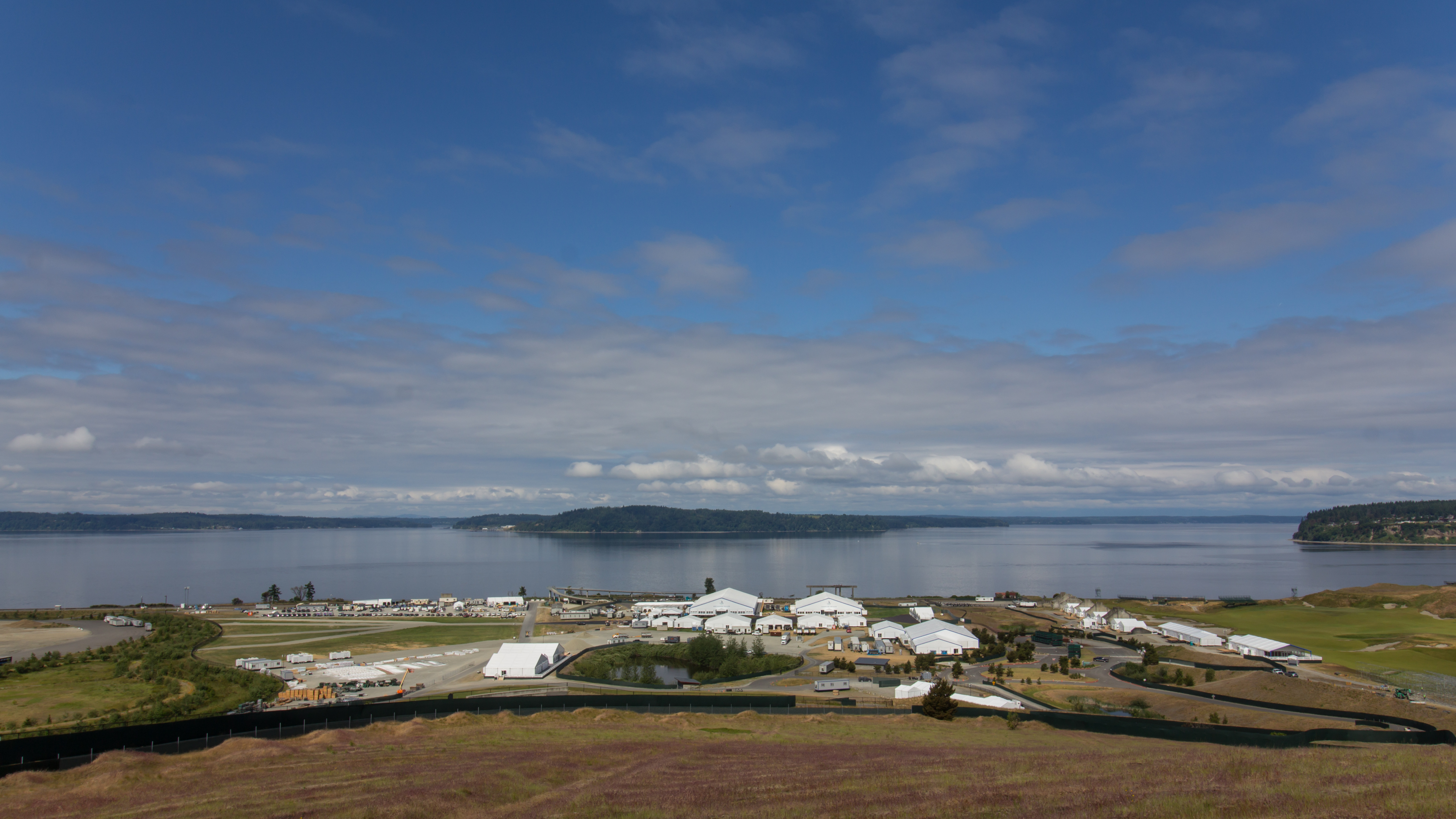 Seems to be a staging area for US open-related facilities